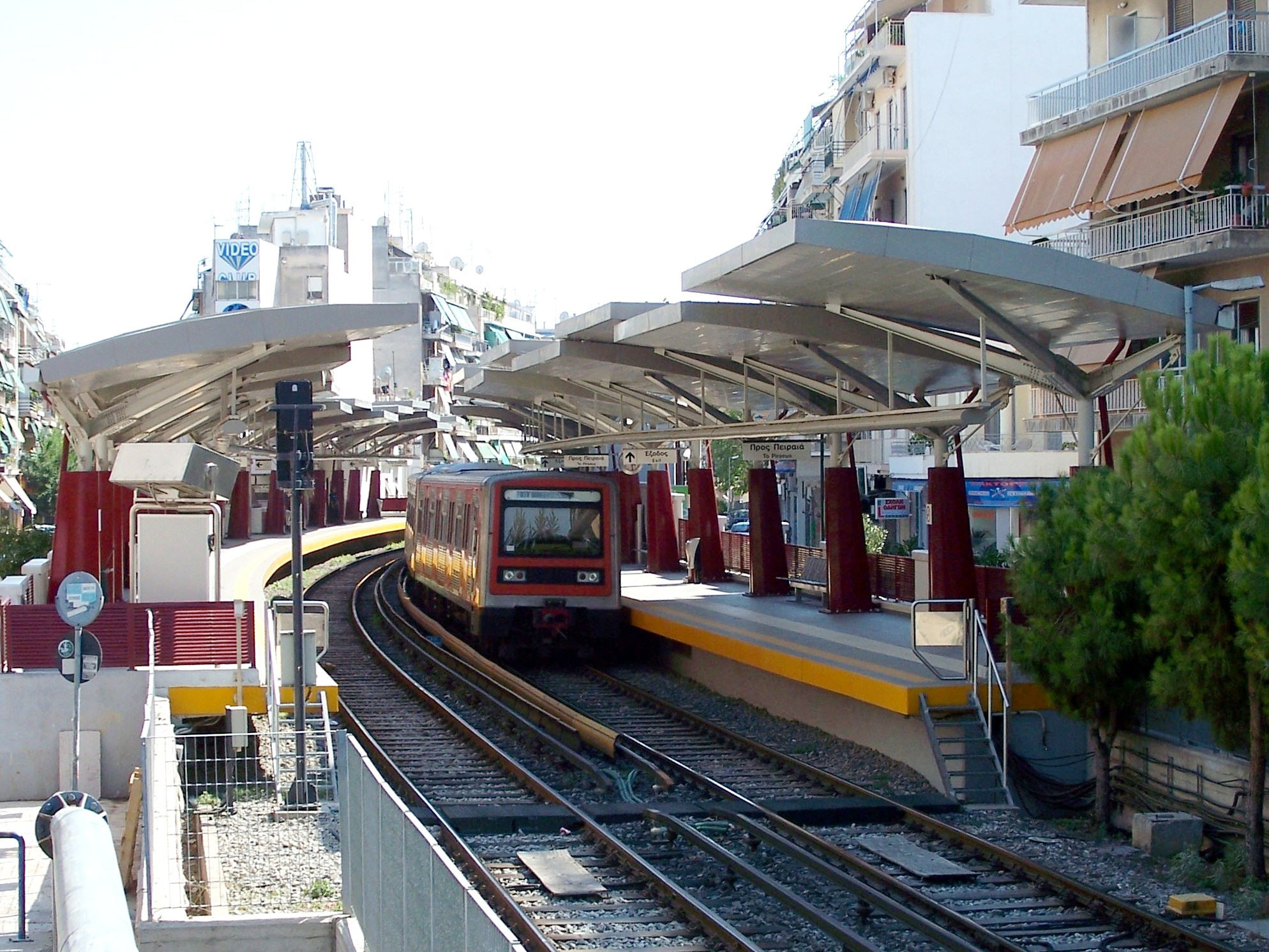 Agios Nikolaos station of Athens Metro system.